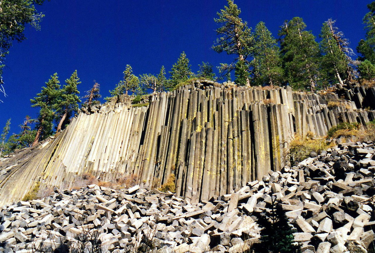 Devils Postpile National Monument, San Joaquin River Valley, California, United States